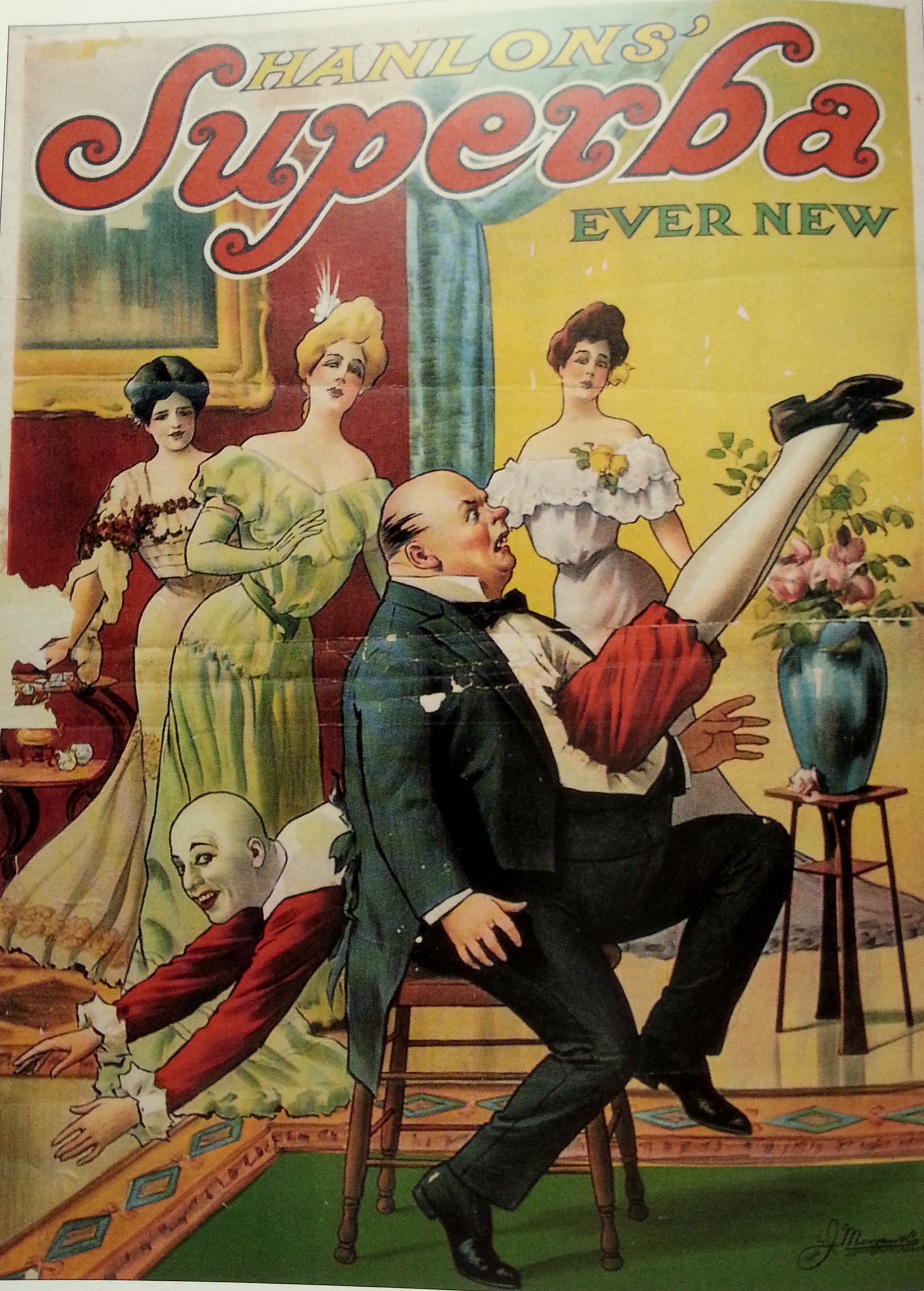 Theater poster for "Superba" by acrobatic mimes Hanlon-Lees: a white-faced clown dives through the stomach of a "stuffed shirt", who gapes about in alarm, as his company gazes at him incredulously.